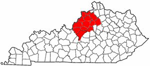 Public domain map courtesy of The General Libraries, The University of Texas at Austin, modified to show counties. See Wikipedia:U.S. county maps. The image was modified from the public domain source by User:Dale Arnett.